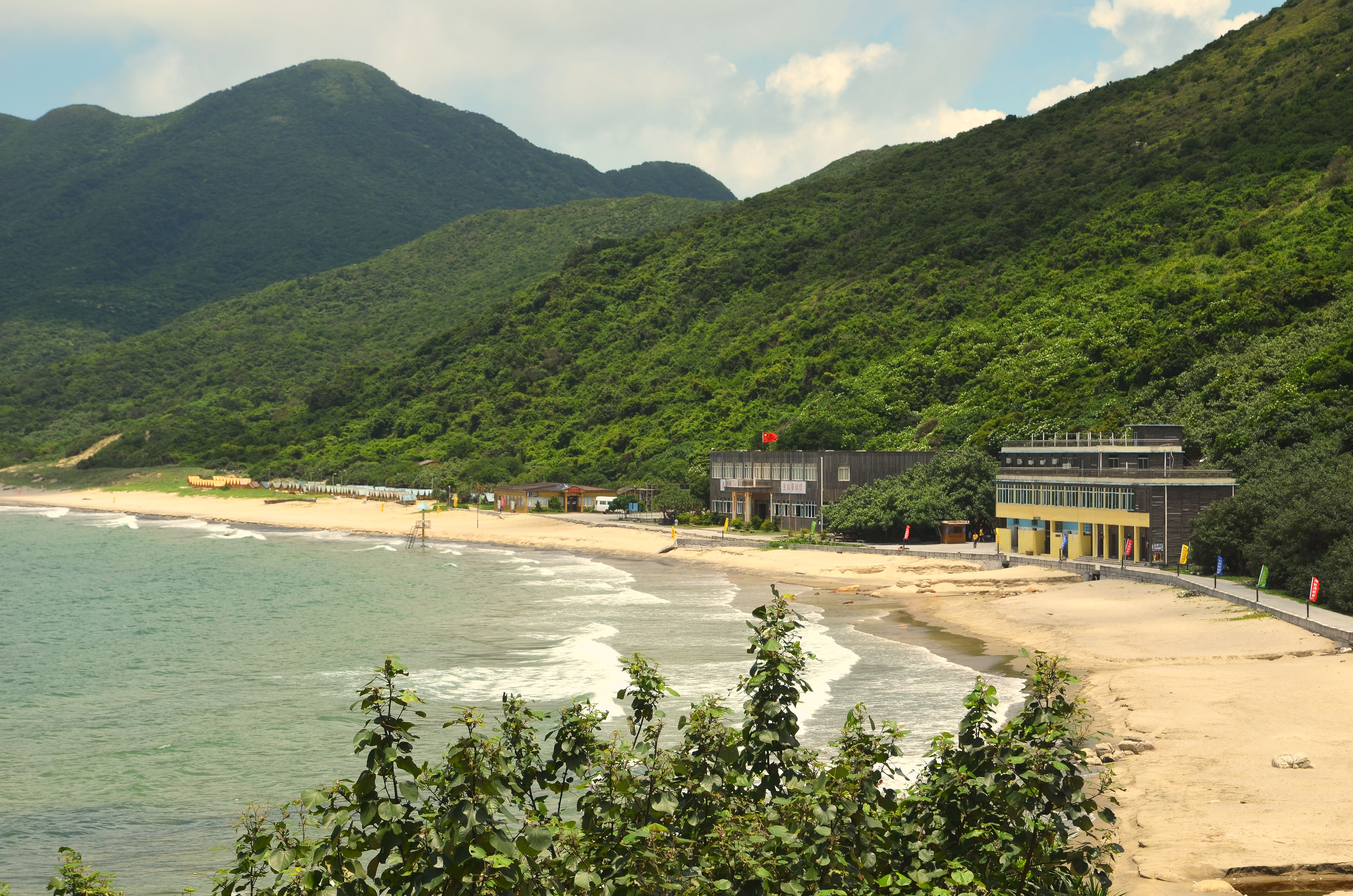 Hebao Island, vacation village (荷包岛度假村), appreciated by students, in Zhuhai municipality, Guangdong province, China.